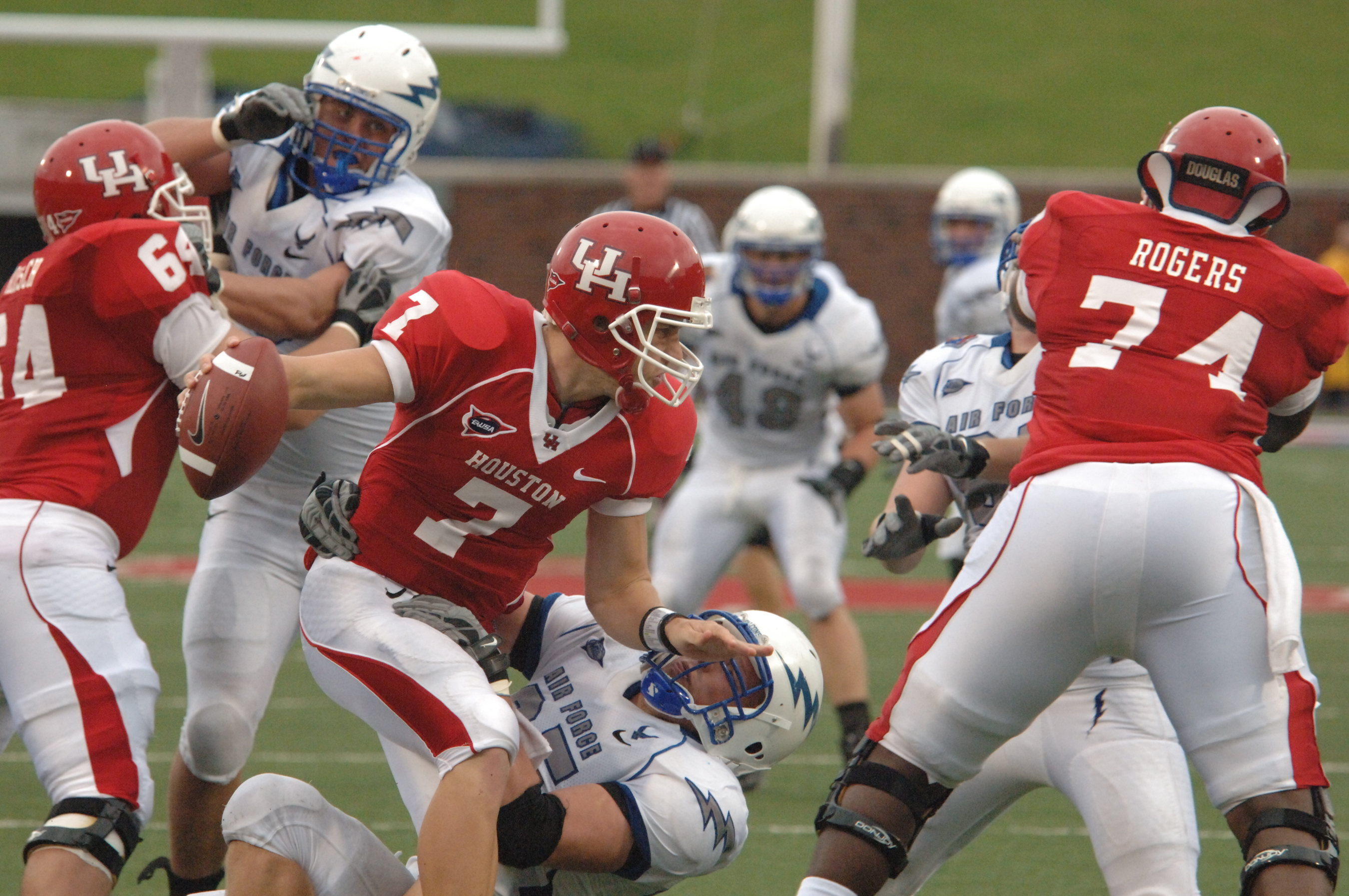 The 2008 Houston Cougars football team faces off against the Air Force Falcons at Gerald J. Ford Stadium on the campus of Southern Methodist University. The game was originally intended to be a home game for the Cougars at Robertson Stadium, and was scheduled to be televised by CBS College Sports. Due to Hurricane Ike, the game was moved to Dallas, and the television appearance was cancelled.